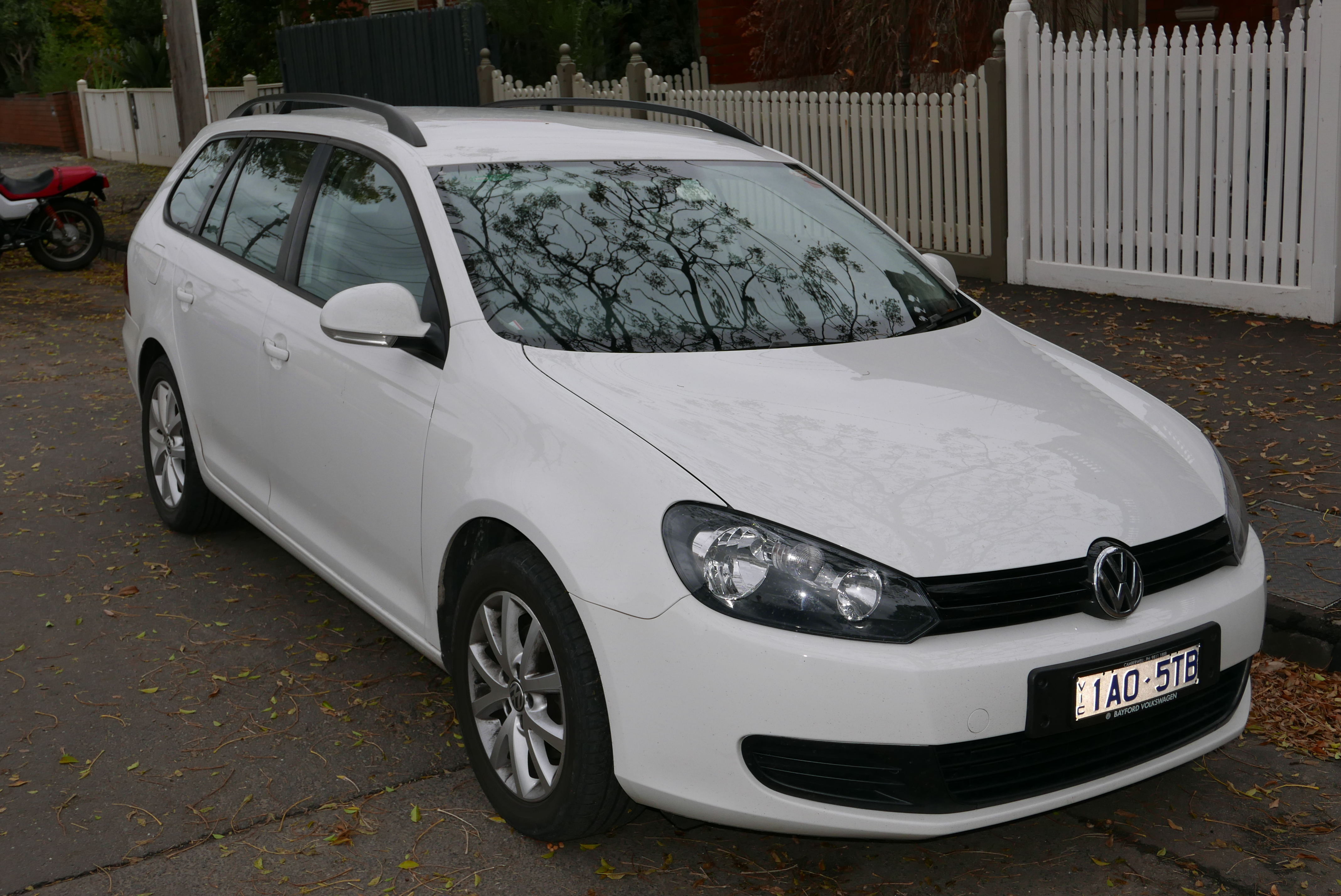 2013 Volkswagen Golf (5K MY13.5) 90TSI Trendline station wagon. Photographed in Fitzroy North, Victoria, Australia. Vehicle registration enquiry resultsJurisdictionVictoriaRegistration1AO5TBChassis codeWVWZZZ1KZDM637478Engine codeCZXC55413Compliance date2013-10Year of manufacture2013